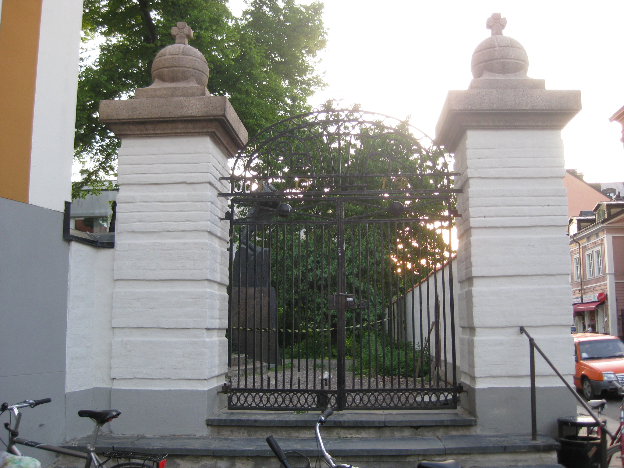 The gates to the garden of Uplands nation, a student society in Uppsala. The wall and the gates are designed by architect Evert Milles, brother to the artist Carl Milles.